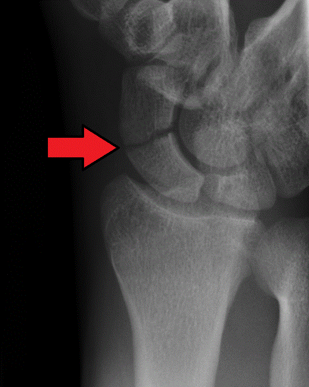 Fracture across waist of scaphoid bone (indicated by arrow).